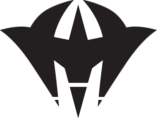 Символ Дайи - Богини покровительница муз и душевных устремлений